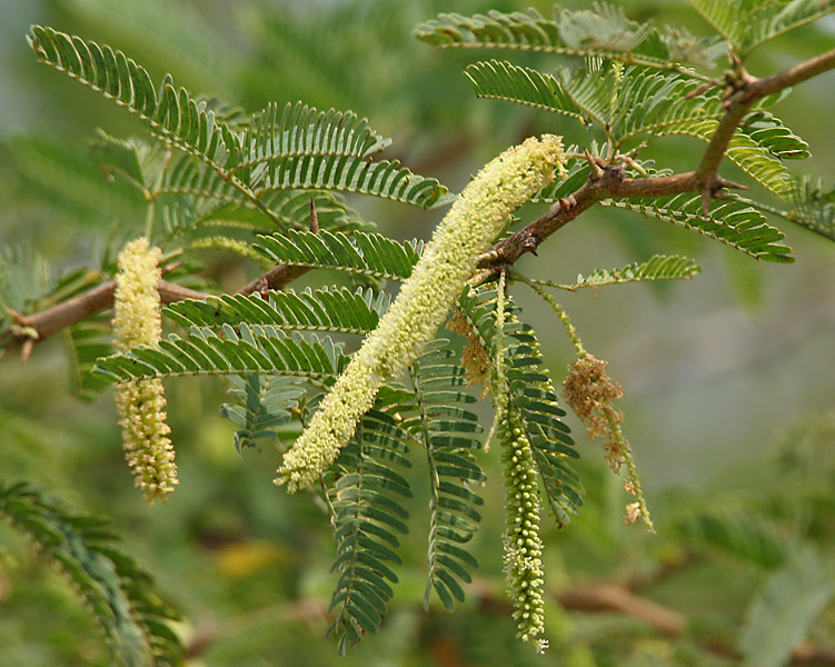 Vilaiti Keekar/ Babool, Kabuli Keekar, Mesquite, Algarroba or Southwest thorn Prosopis juliflora in Krishna Wildlife Sanctuary, Andhra Pradesh, India.